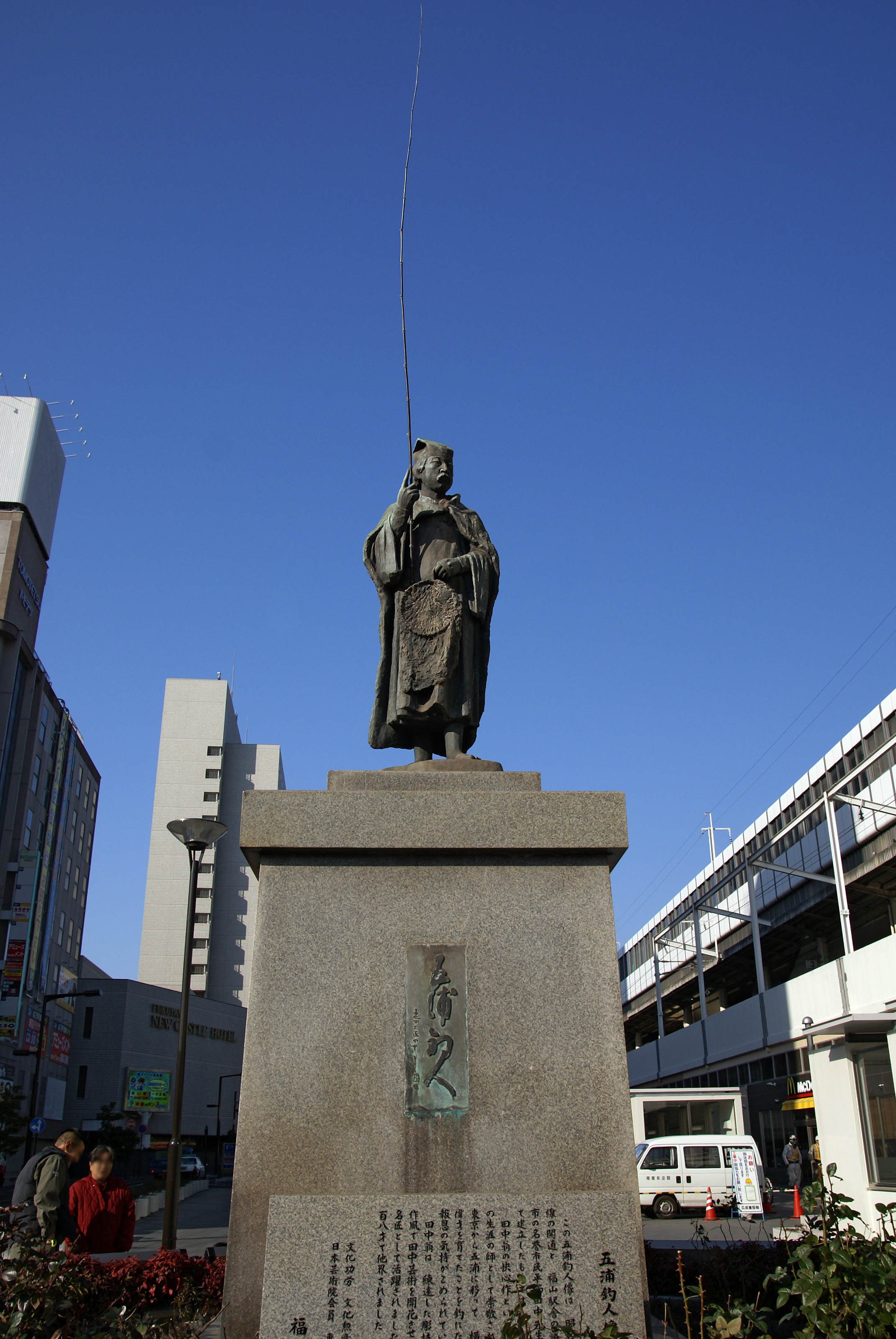 In front of Fukuyama Station in Fukuyama, Hiroshima prefecture, Japan